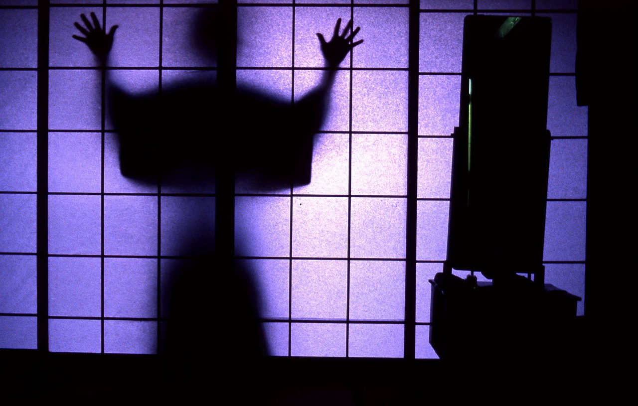 Shadow effect on sliding doors.